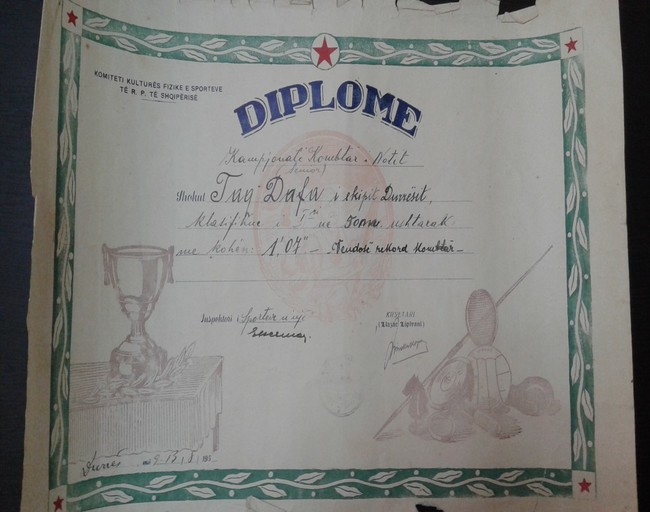 50m not ushtarak 195